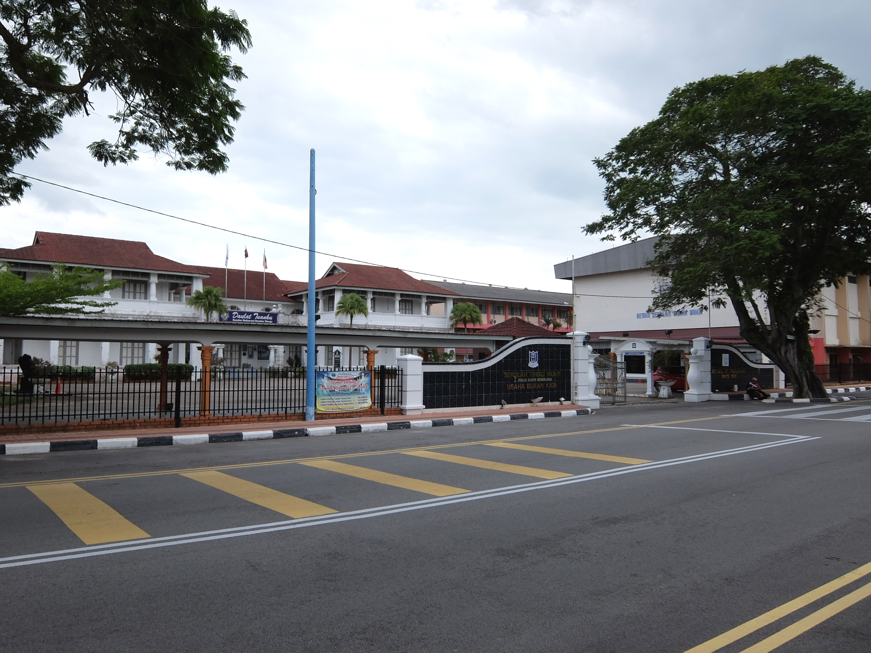 Muar High School, Muar, Johor, Malaysia